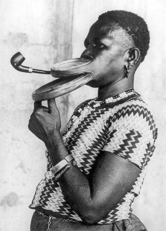 Extended mouthpiece for pipe smoking woman with special lips, who is performing in a circus. New York, 1930. Hebt u meer informatie over deze foto, laat het ons weten. Laat een reactie achter (als u ingelogd bent bij Flickr) of stuur een mailtje naar: Please help us gain more knowledge on the content of our collection by simply adding a comment with information. If you do not wish to log in, you can write an e-mail to: Meer foto’s van Spaarnestad Photo zijn te vinden op onze beeldbank